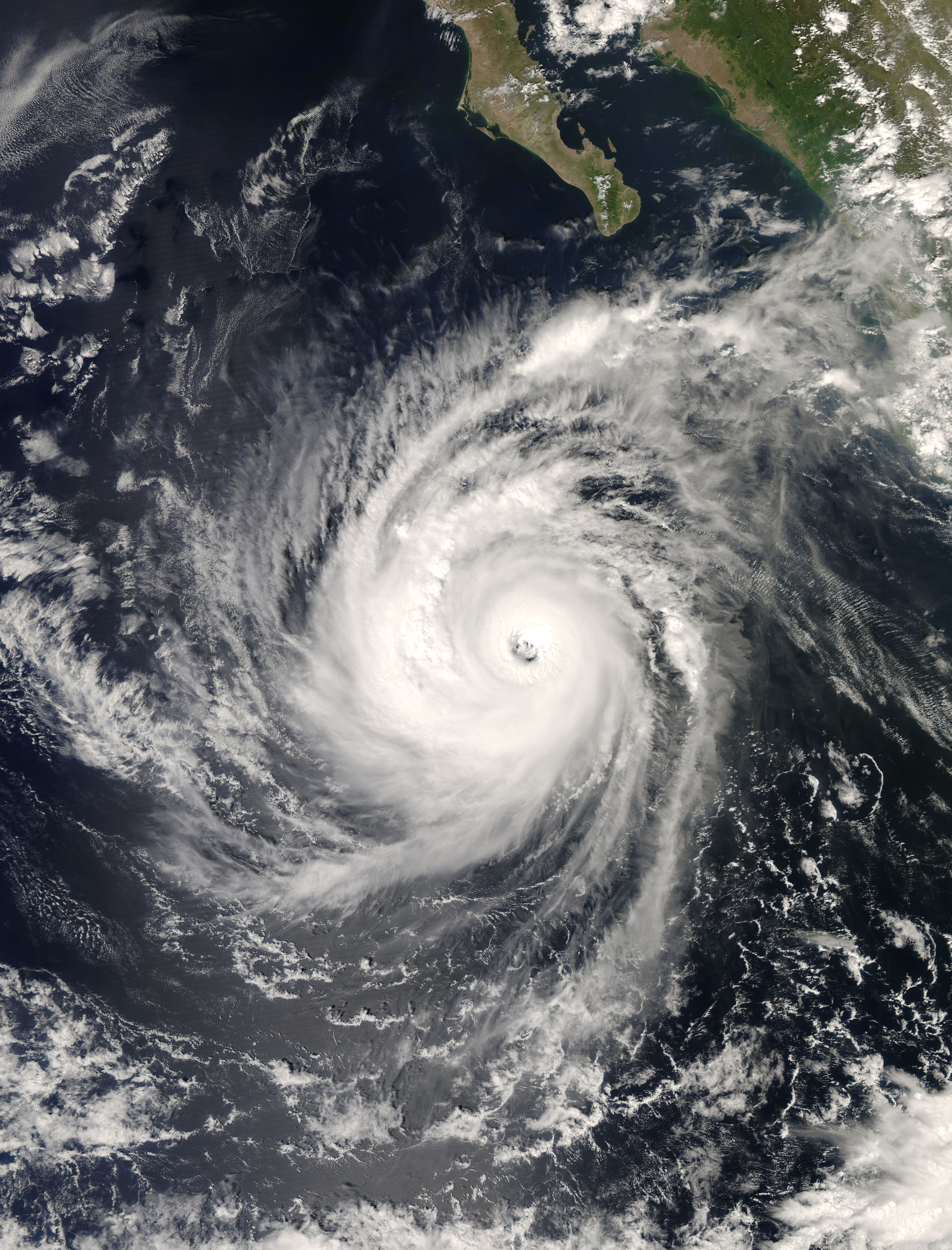 Hurricane Norbert (15E) off Mexico as seen from NASA's Aqua satellite.